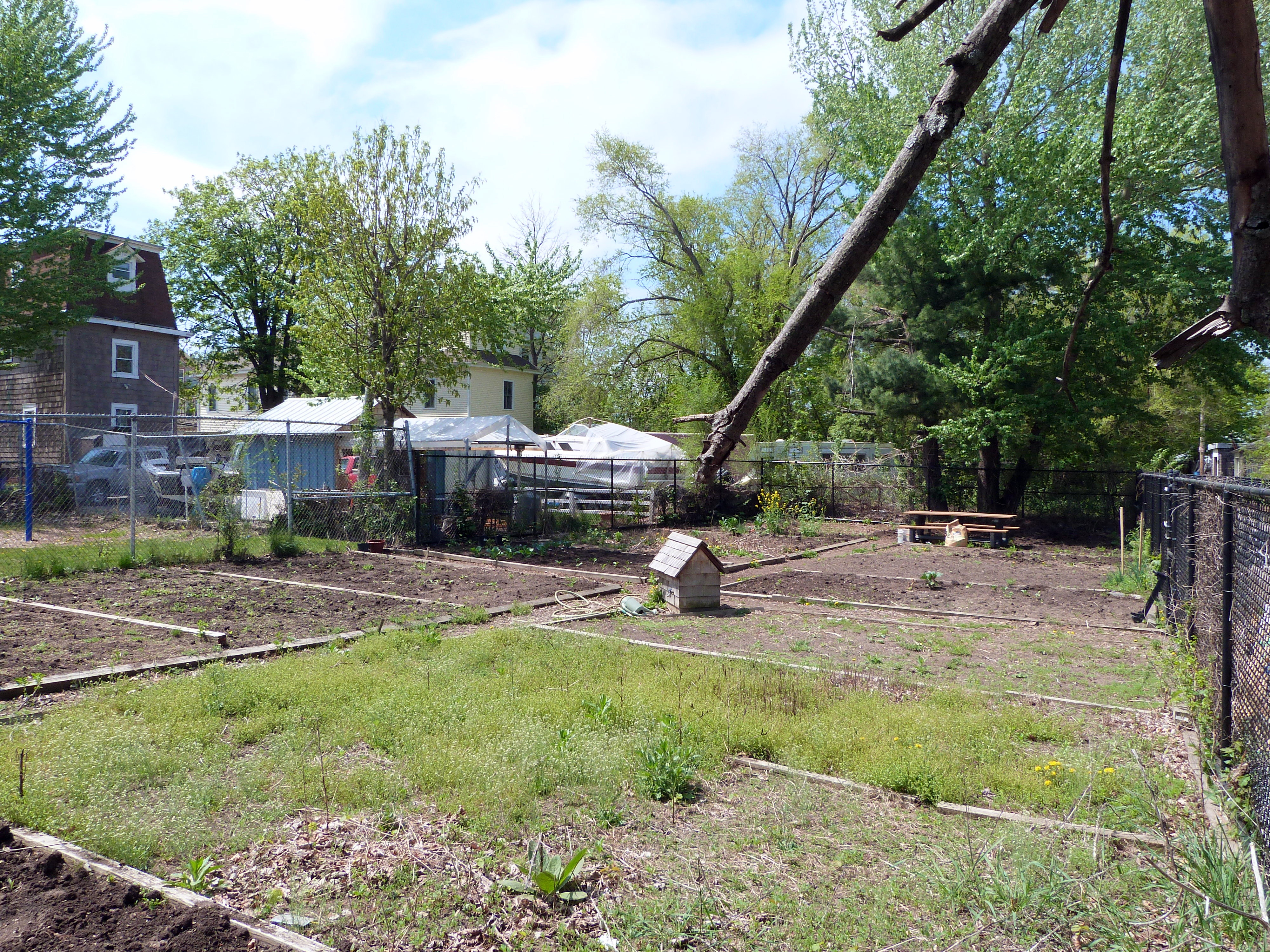 The Janes Community Garden is a community garden located at 10–12 Janes Street in Providence, Rhode Island, United States. It occupies the site of the former Elizabeth Harris House (ca. 1893), which had been listed as a contributing resource in the Rhodes Street Historic District. Visible in the background are the district's Alpheus B. Slater / Lemuel J. Oster House (mansard roof, left) and Charles S. Clarke House (yellow, right). The garden is managed by the Southside Community Land Trust.